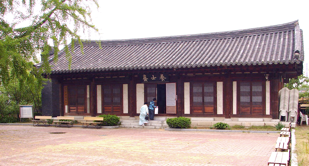 Daegu Hyanggyo founded in 1398 was moved to the present location in 1932. The layout finds the Daeseongjeon centered in the north, facing the wide courtyard, with the Myeongnyundang found to the right of Daeseongjeon when entering.